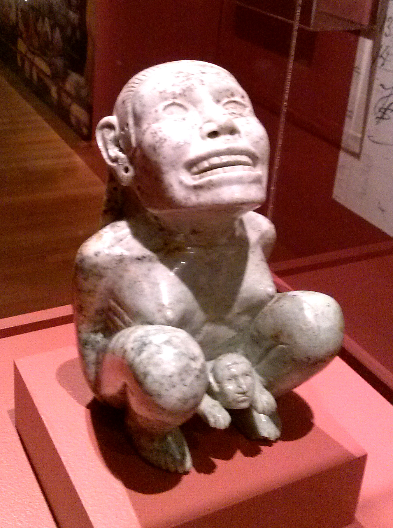 The famous Aztec birthing figure from Dumbarton Oaks, often associated with the Aztec goddess Tlazolteotl. Recent microscopic analysis of the incisions and holes has determined that they were made by modern tools.